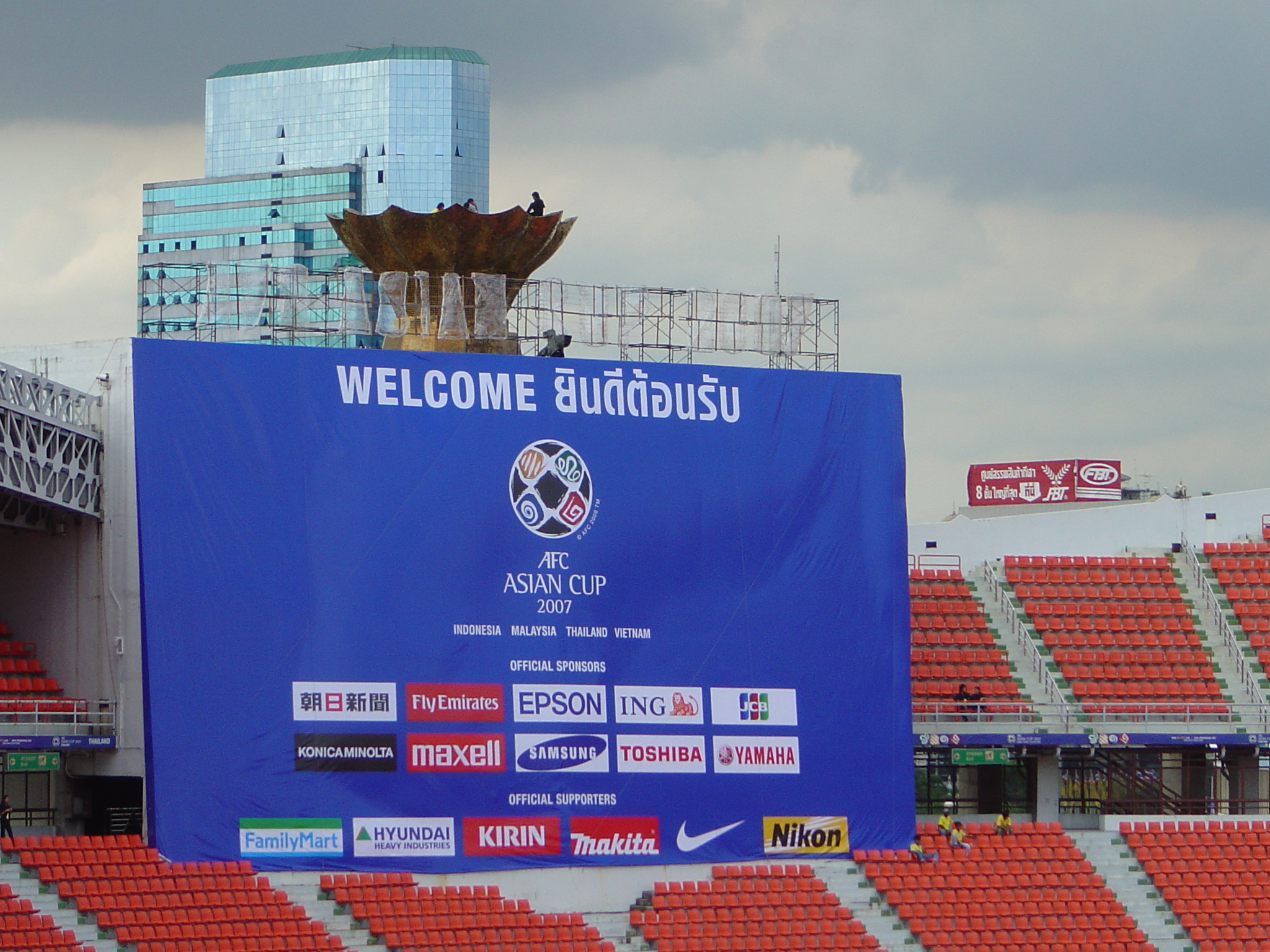 A welcome banner at Rajamangala Stadium, venue for the 2007 Group A AFC Asian Cup matches.